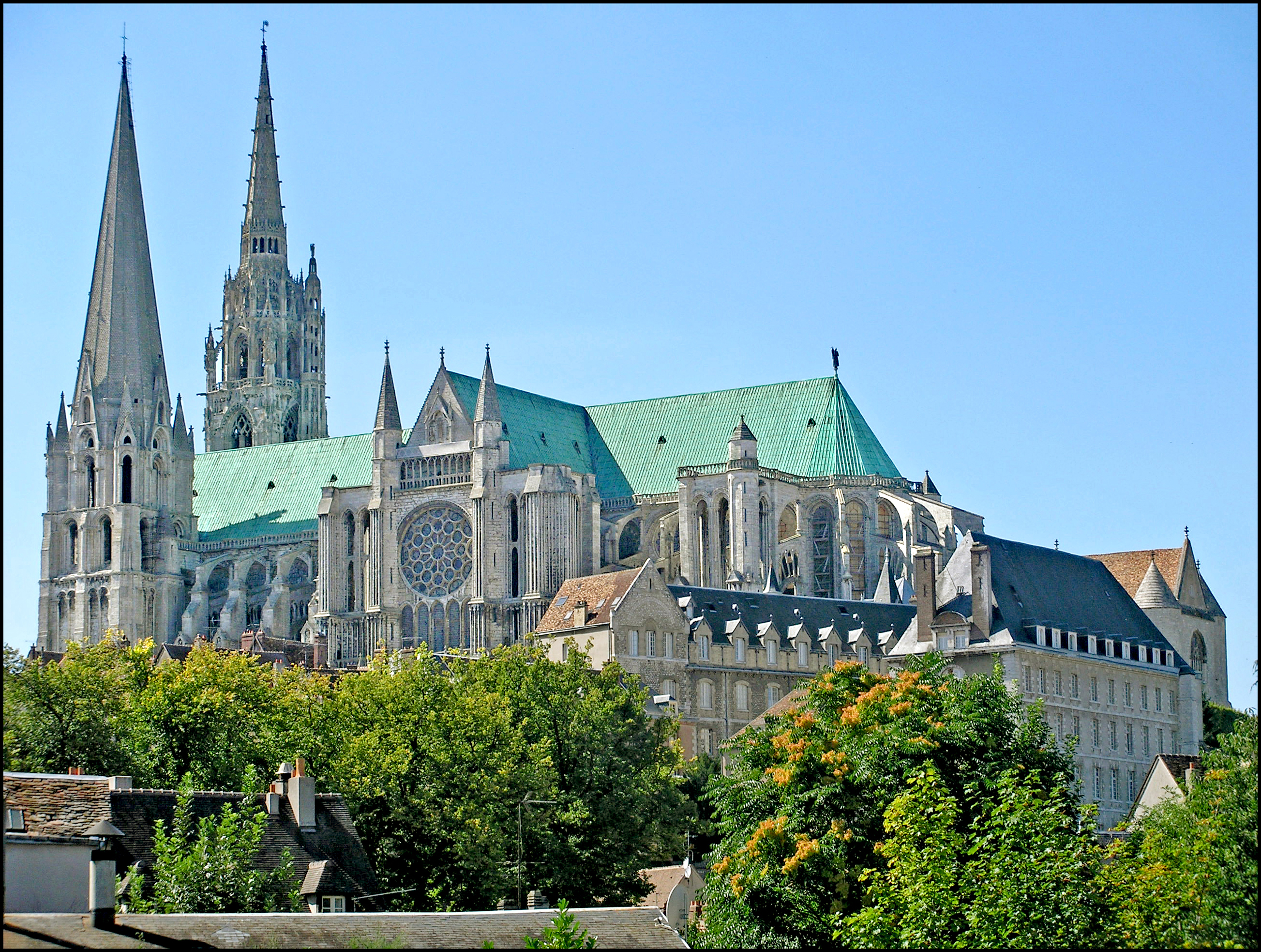 Chartres Cathedral (Notre-Dame de Chartres), High Gothic (1194-1260), Chartres, France